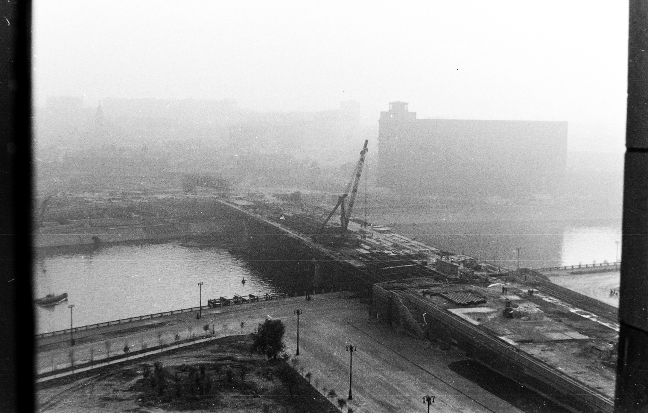 Construction of Novoarbatsky Bridge in Moscow, view from Ukraina Hotel tower.